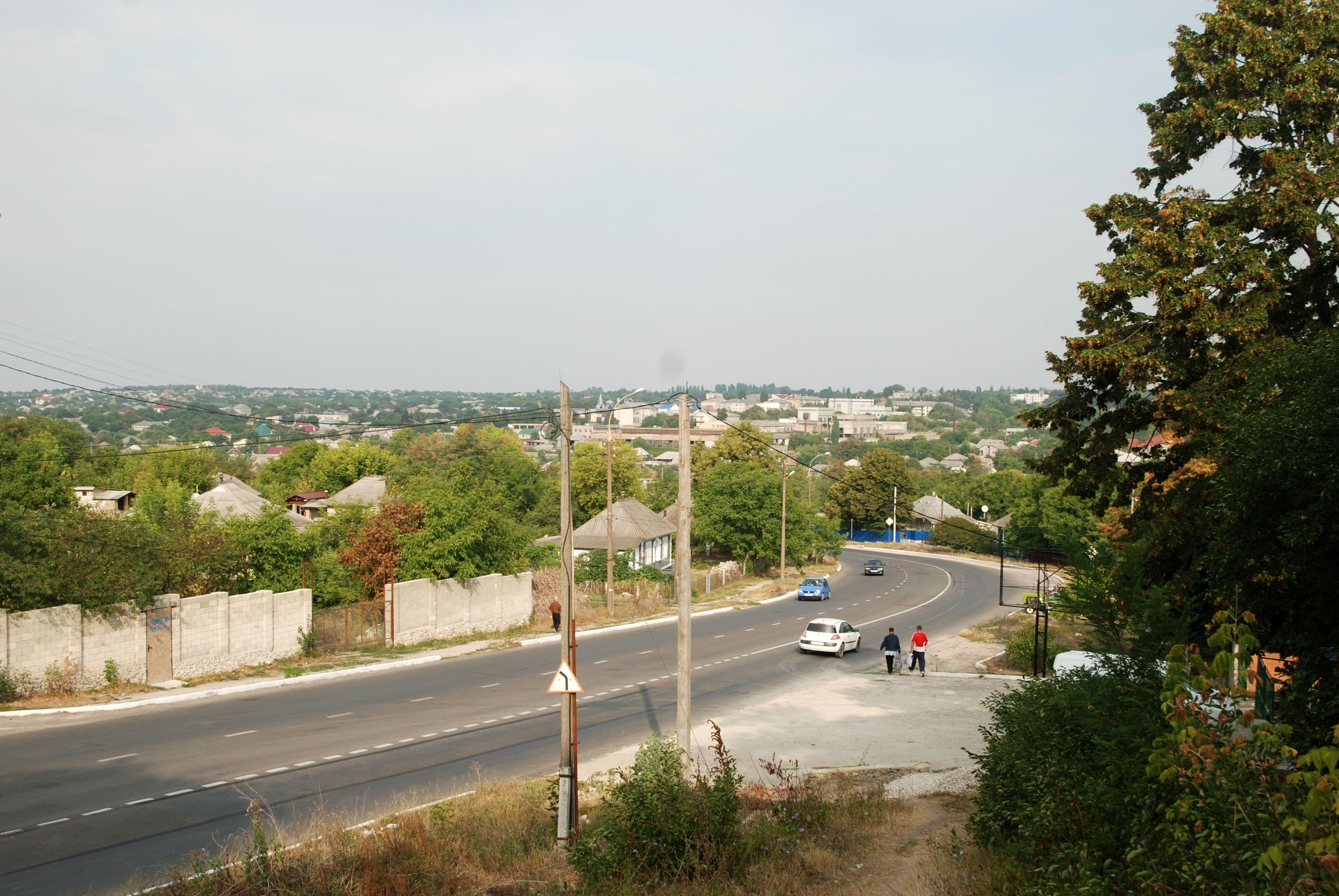 Edineț, south